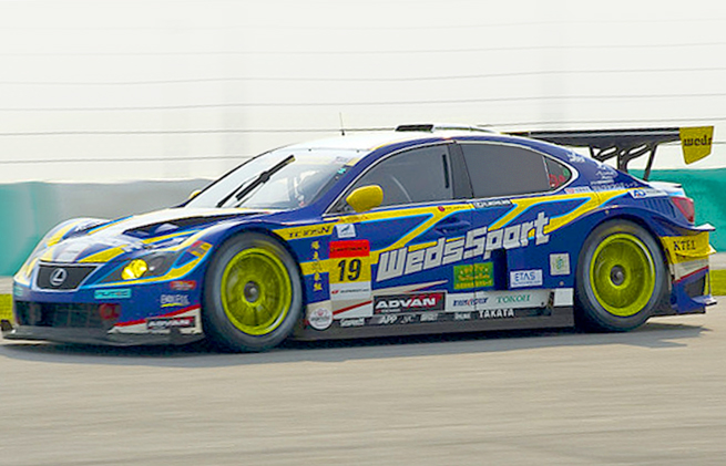 Taken during SuperGT 2009 Round 4, Sepang International Circuit on Race Day.